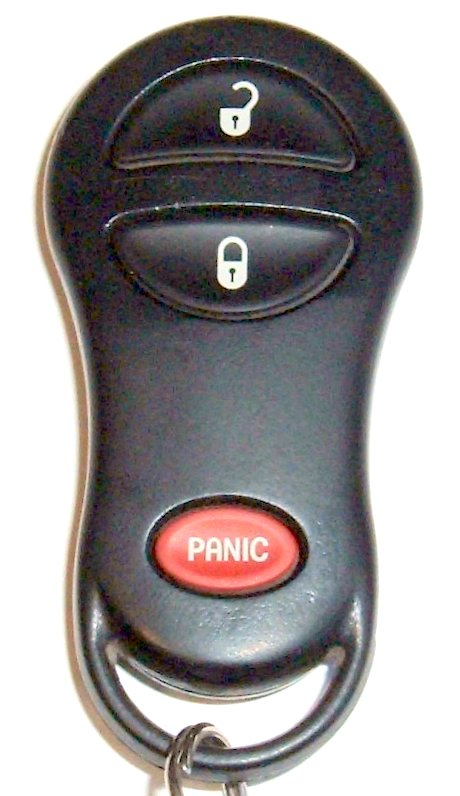 Keyless entry remote for a Chrysler minivan or Dodge truck